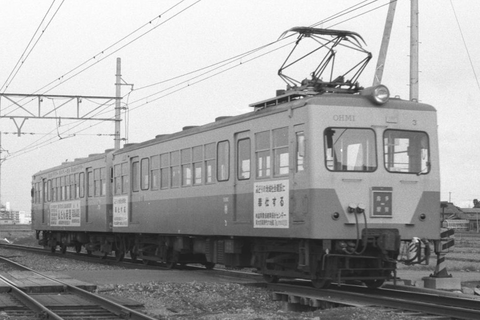 Moha 3 of Oumi Tetudou